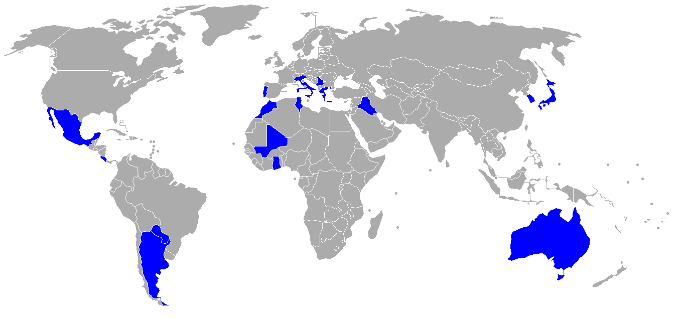 Map, showing countries which participate in men's football at the 2004 Summer Olympics